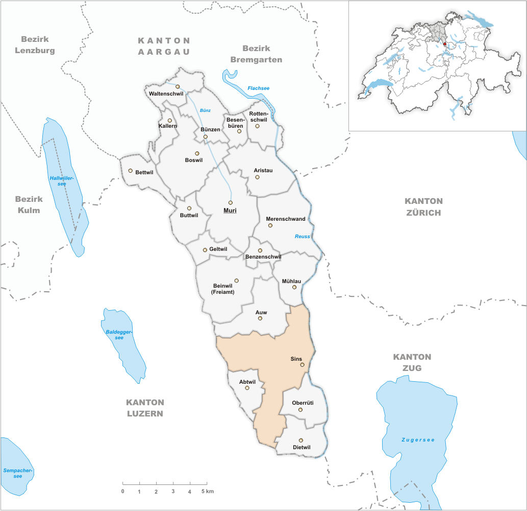 Municipality Sins